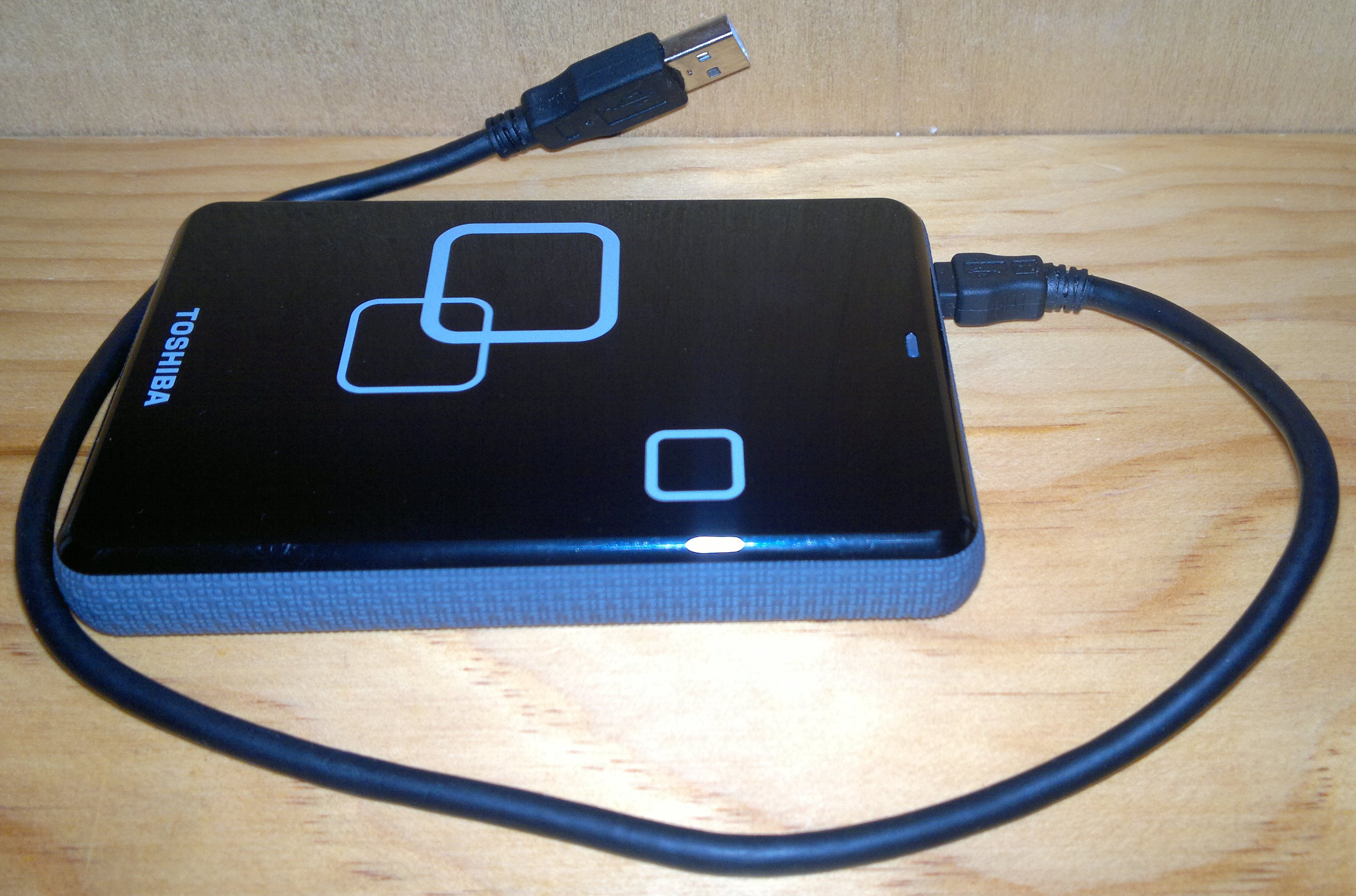 Toshiba 1 TB 2.5" External USB Hard Disk Drive